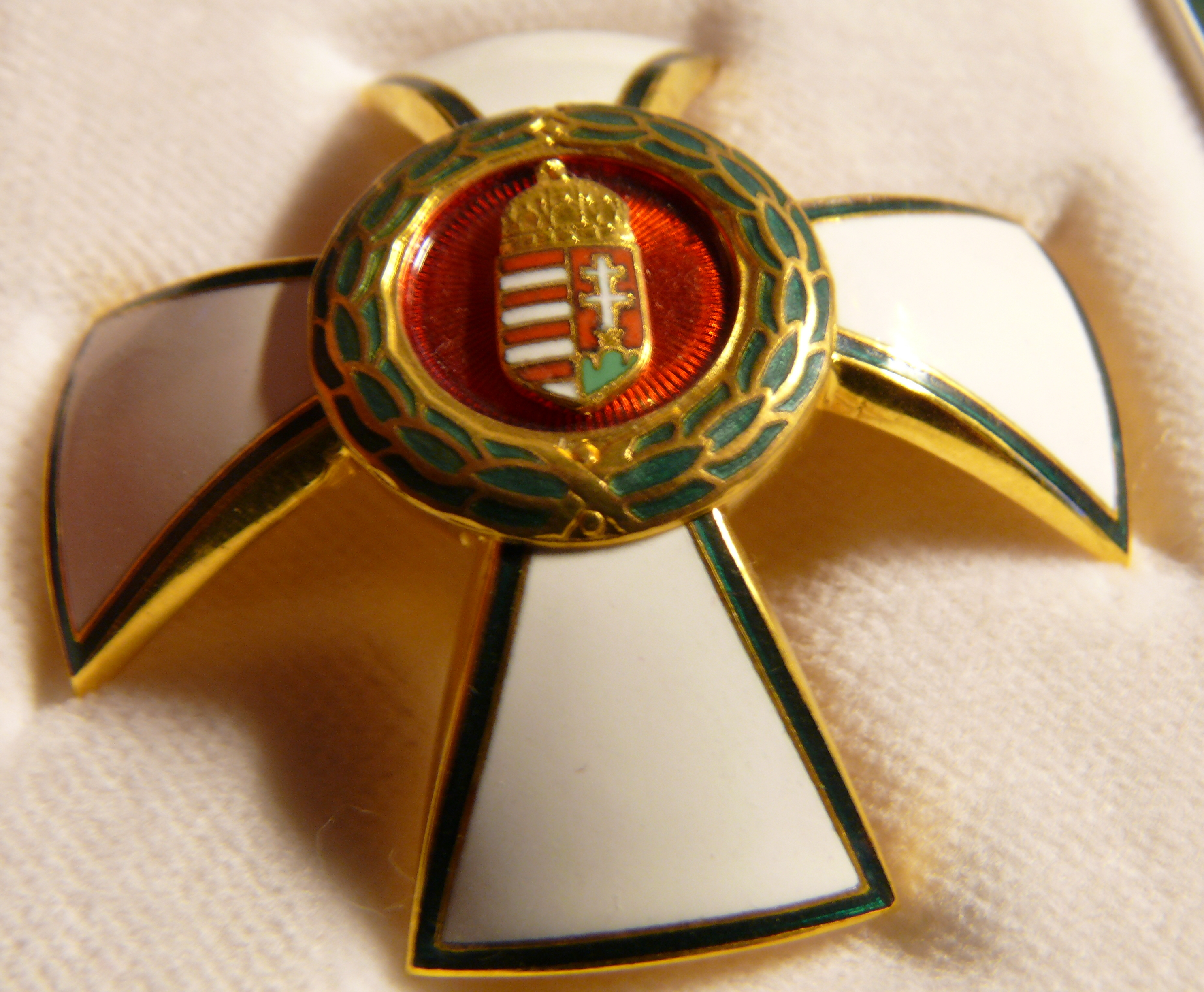 Hungarian Order of Merit Officer's Cross (civil)